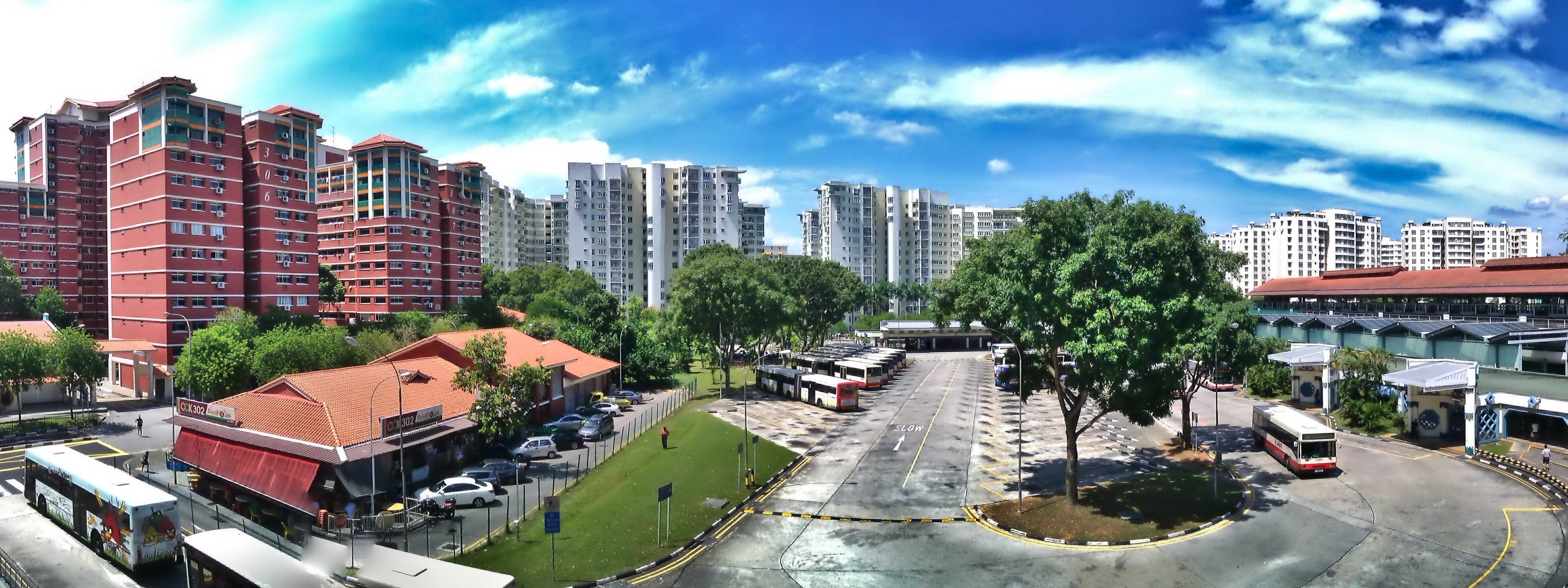 Fun pano shot with my old HTC legend